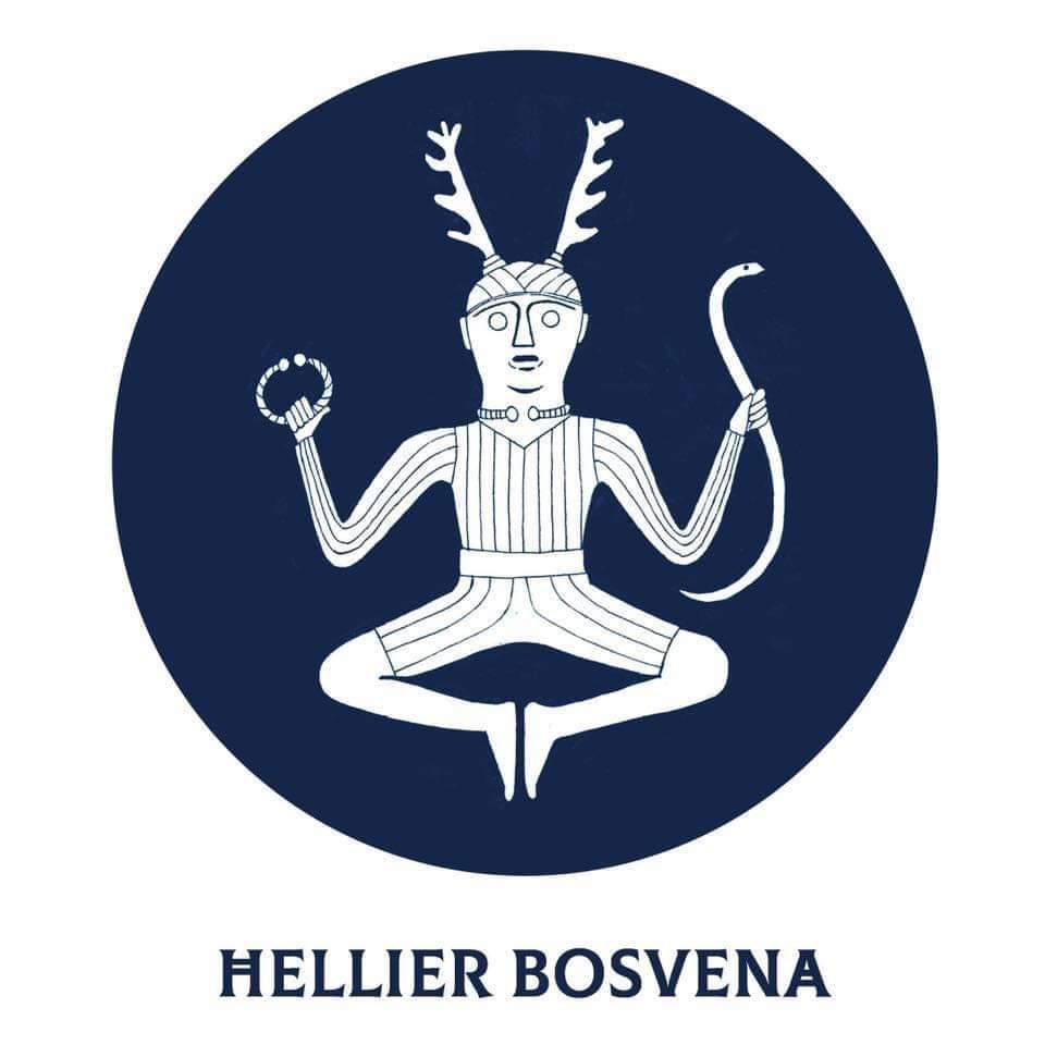 Drawn by Merran Coleman